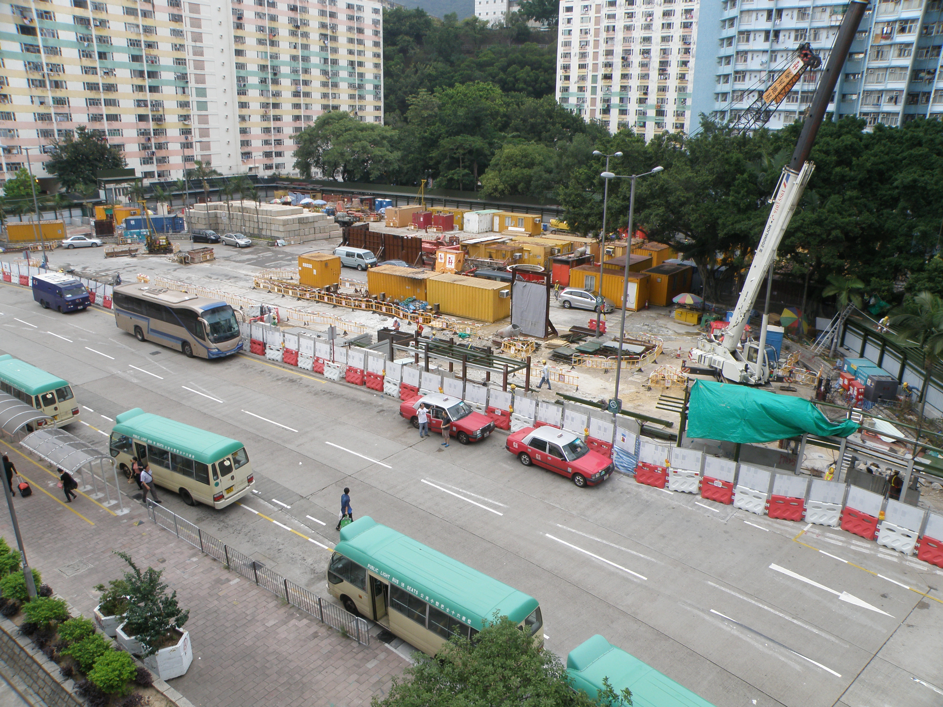 Pak Tin Estate in Shek Kip Mei, Hong Kong.